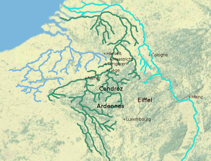 Shows Scheldt / Schelde / Escaut, Maas / Meuse, and Rhine rivers. Was made using ArcGIS.